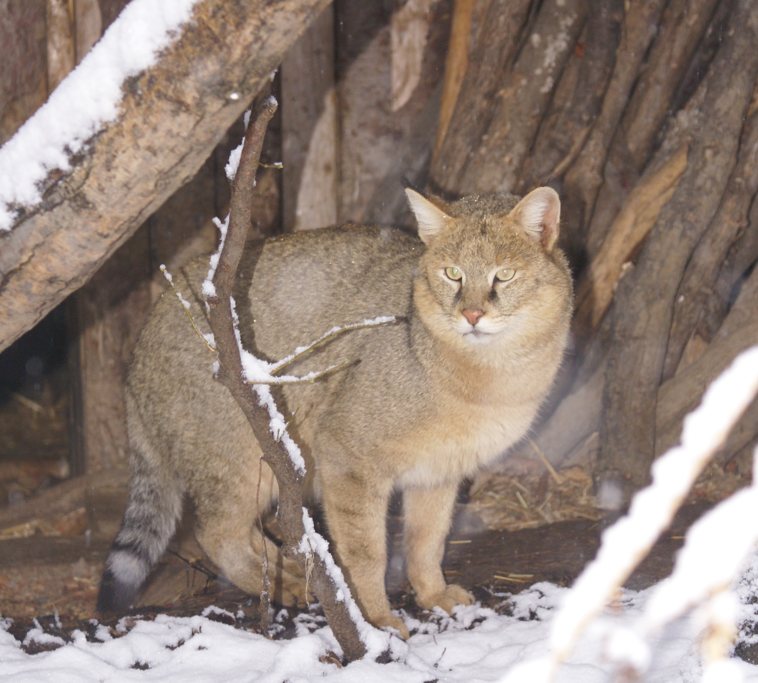 Felis chaus in Sofia Zoo